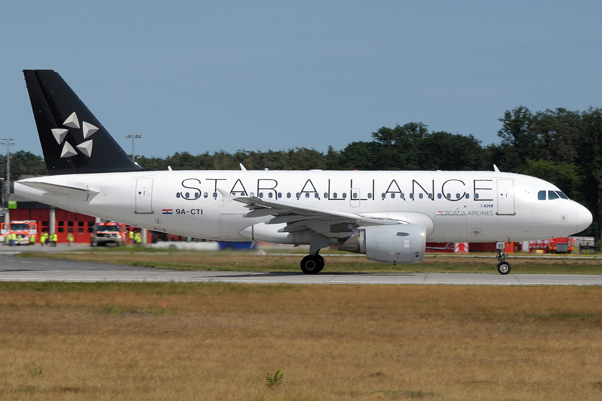 Croatia Airlines Airbus A319 in Star Alliance livery in Frankfurt